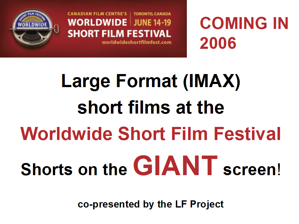 Promotional signage for The LF Project: a curated screening of large format, 15/70mm (IMAX) short films, on display at the 2005 Worldwide Short Film Festival